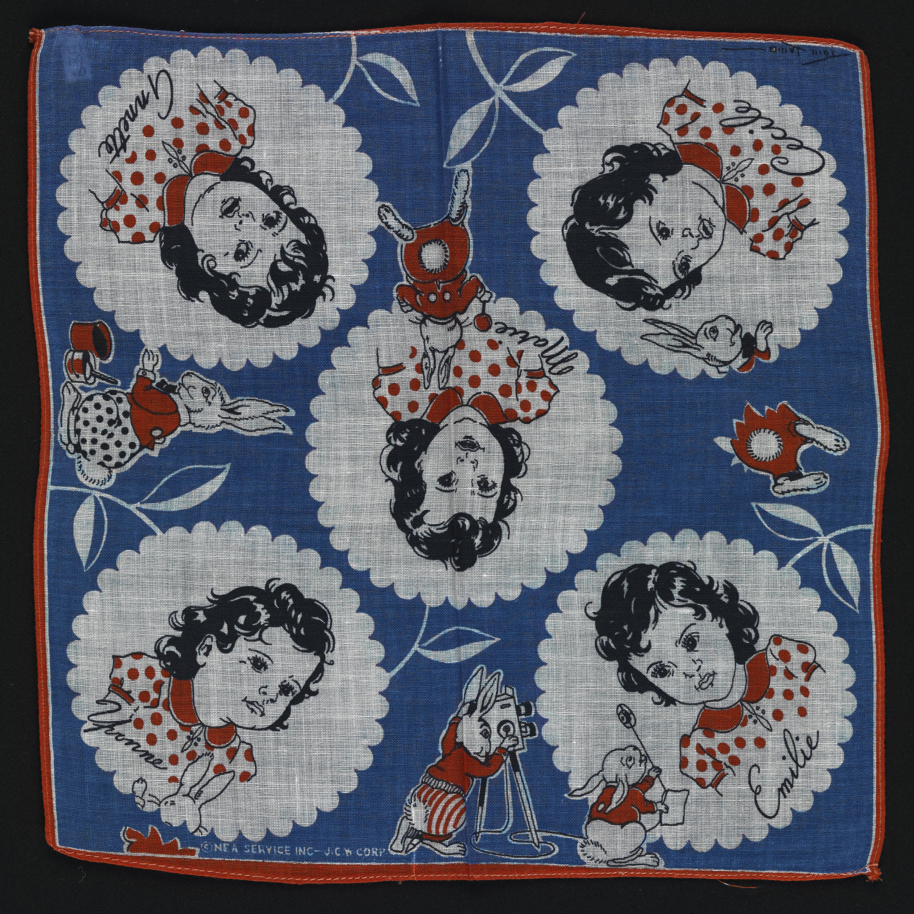 This handkerchief was produced as a souvenir of the Canadian Dionne Quintuplets, five sisters born in Ontario, Canada, in 1934. They were the first quintuplets to survive infancy, and were made wards of the state under the Dionne Quintuplets Guardianship Act of 1935. They were controversilly turned in a tourist attaction, and much merchandise was produced. It belonged to Emily Hannah Francis, of Garden City, and was part of a collection of 145 souvenir and commemorative handkerchiefs put together by Emily, sent to her by pen friends from around the world, up to her death in 1943.